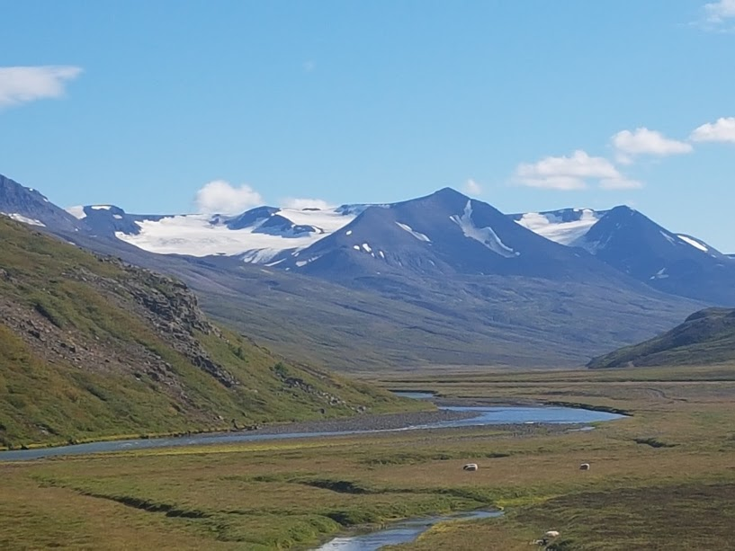 Flateyjardalur